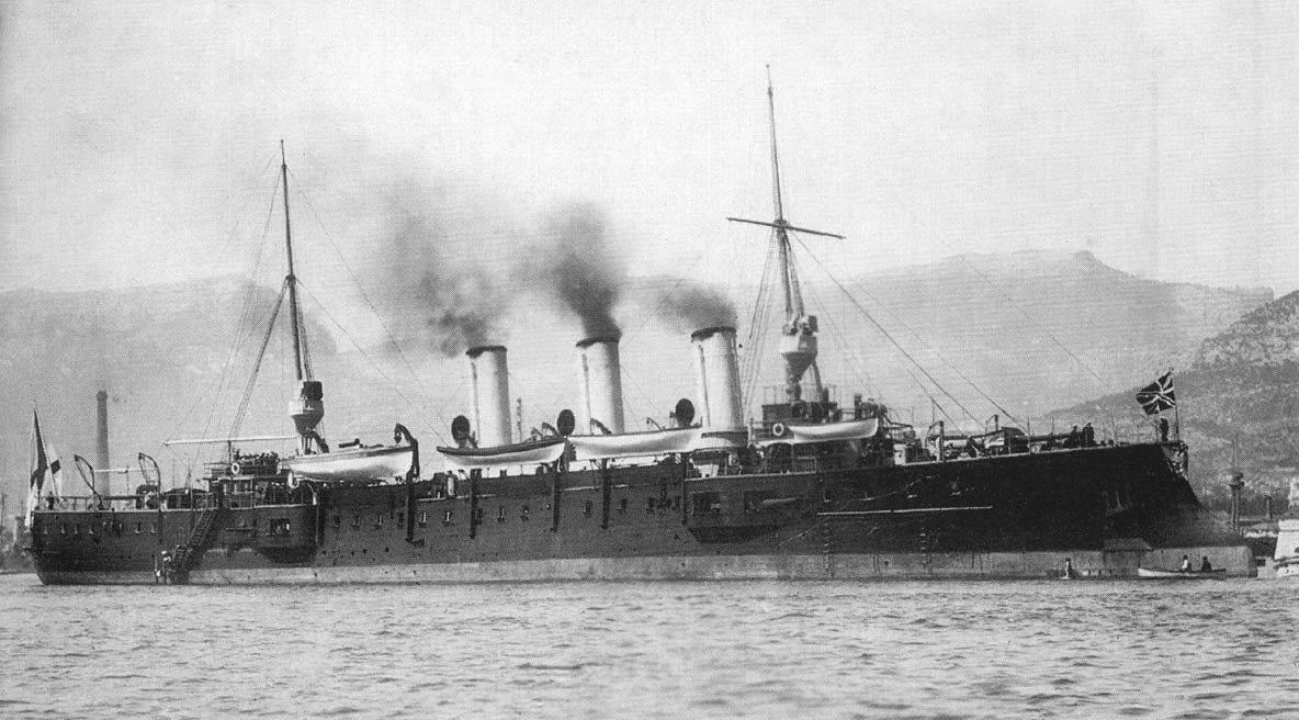 Imperial Russian cruiser Swetlana.